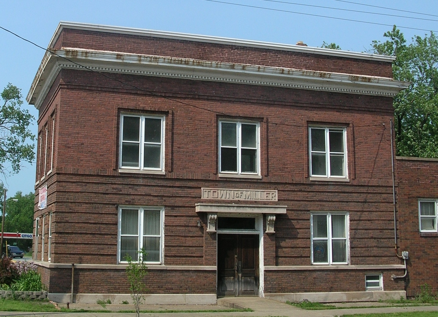 Historic Miller Town Hall (constructed 1911) in the Miller Beach neighborhood in Gary, Indiana. The Town Hall is on the National Register of Historic Places.